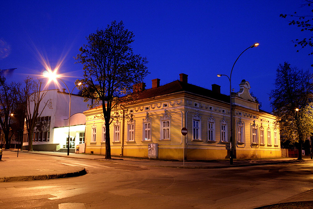 Tarnobrzeg, ul. Sokola.